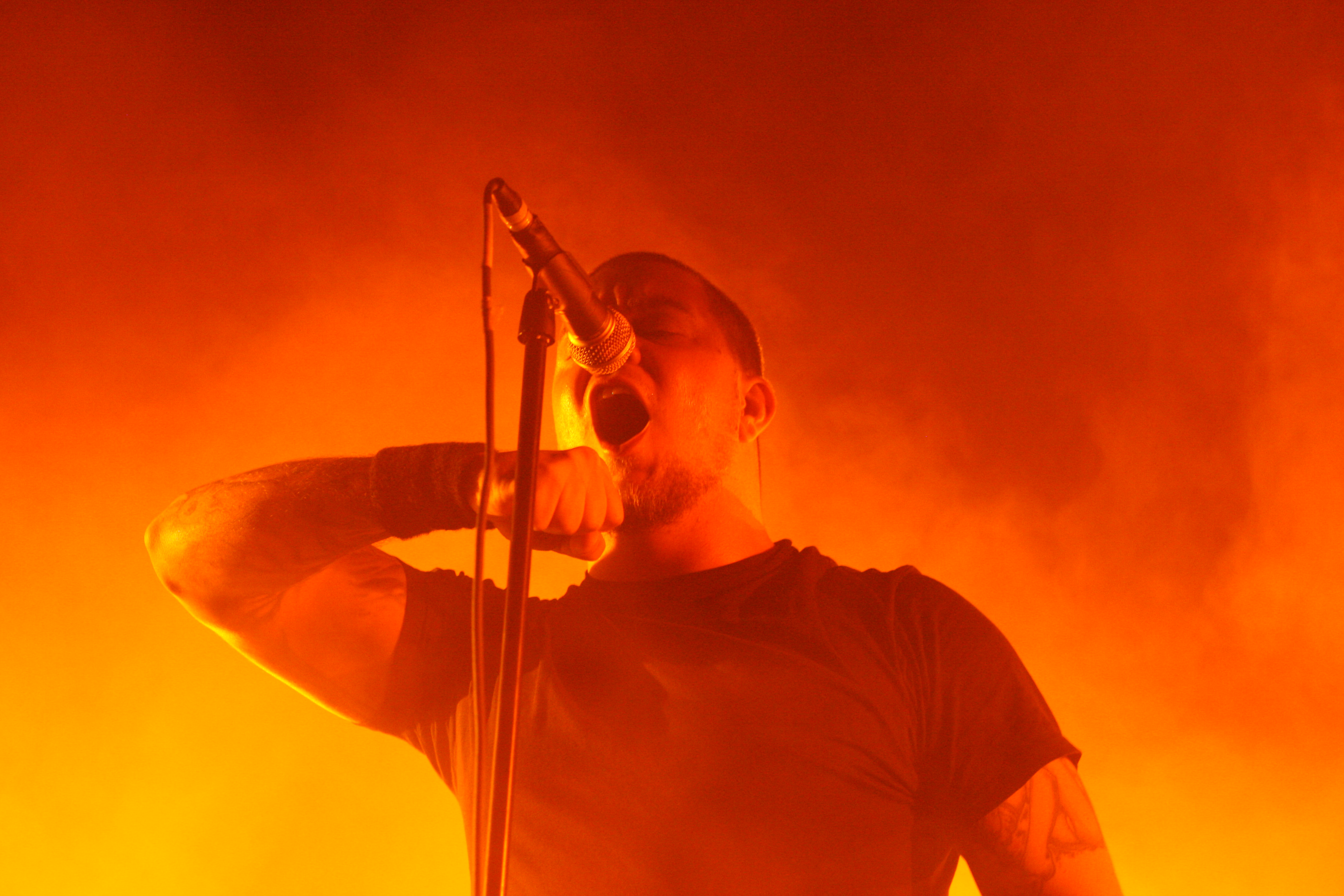 Mark Hunter live with Chimaira at the Nokia Theatre on June 25, 2008.